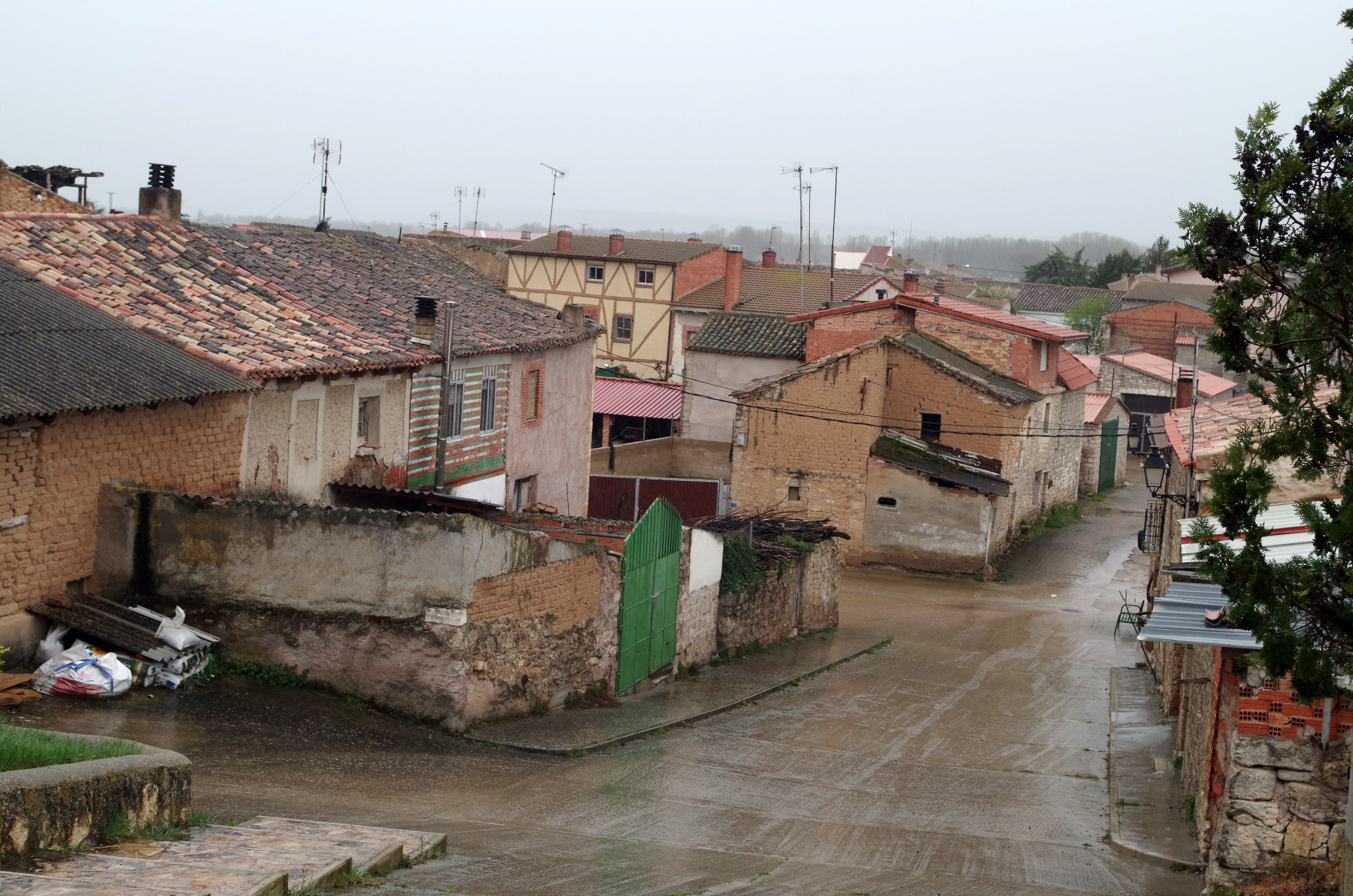 Villaverde-Mogina, Burgos, (Spain)